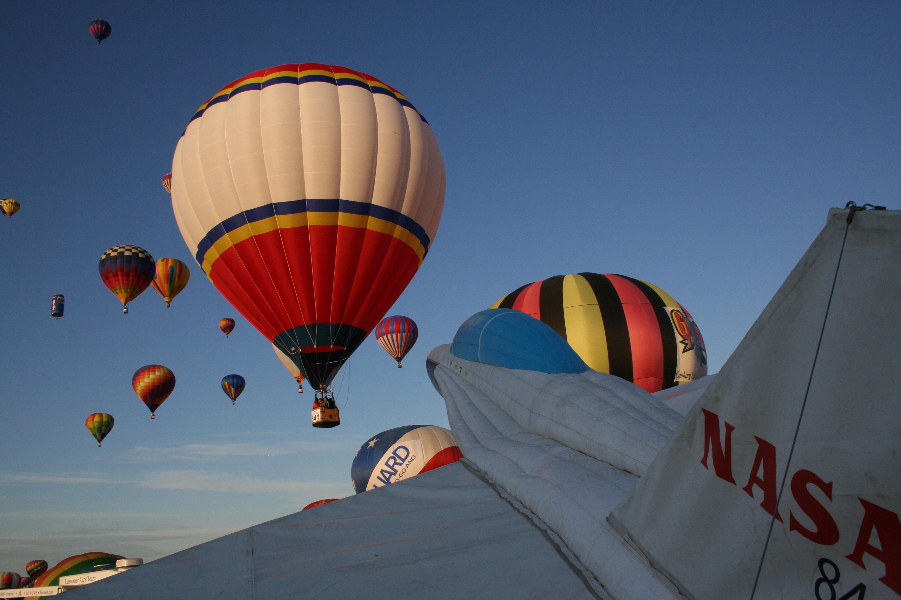 The nose of an inflatable half-scale model of a NASA F/A-18 in front of the NASA Aeronautics exhibit points skyward as a host of hot-air balloons ascend at the 2010 International Balloon Fiesta in Albuquerque, N.M.